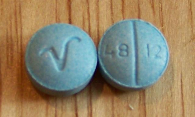 oxycodone 30 mg (generic Roxycodone, mfg. by Qualitest)